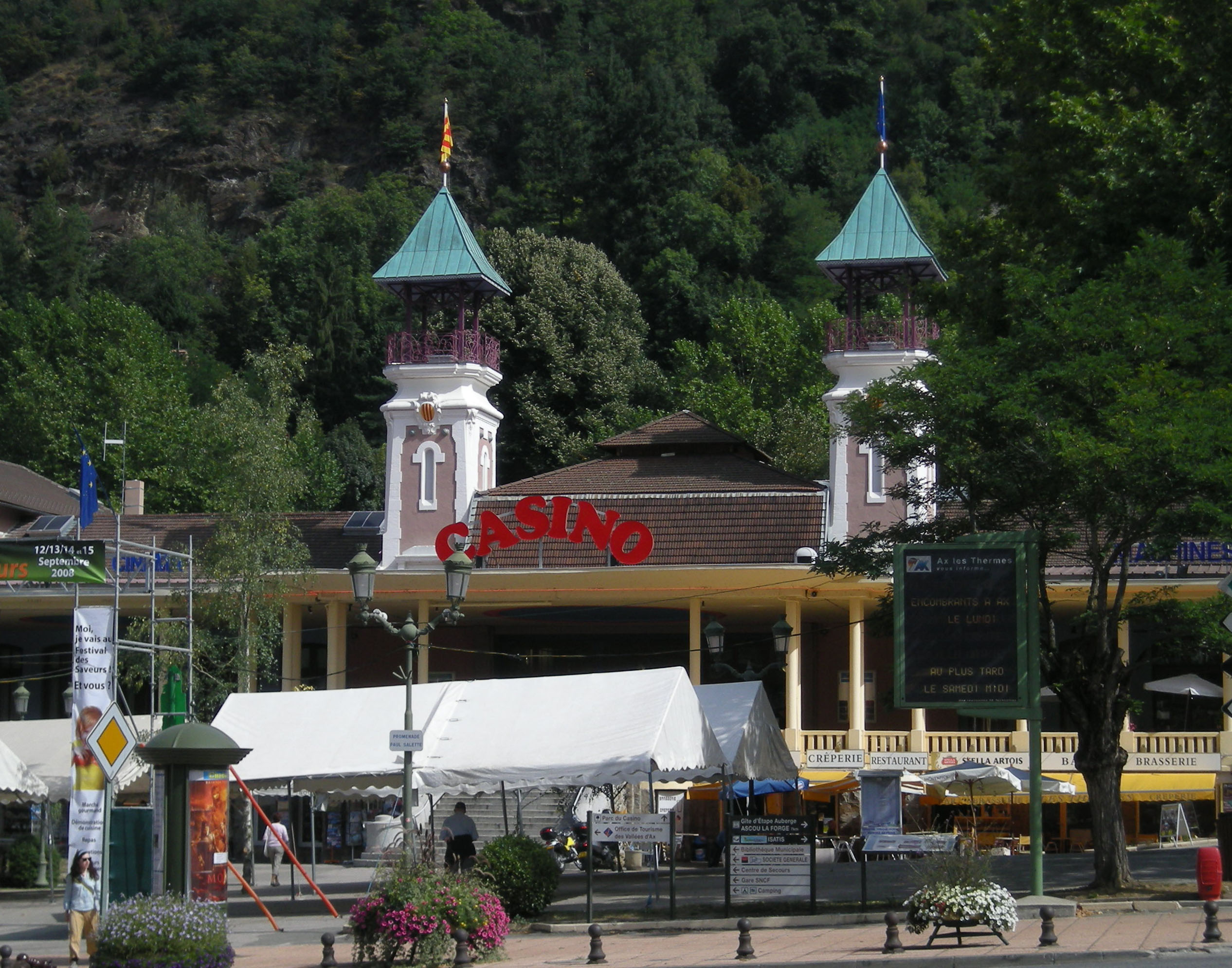 Casino of Ax-les-Thermes (Ariège)